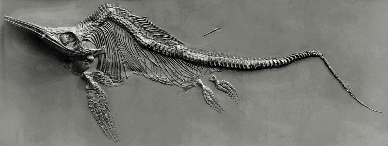 Stenopterygius crassicostatus, Holzmaden, Museum Wiesbaden Naturhistorische Landessammlung. Found in the Posidoniaschiefer formation of the Schwarzjura of Southern Germany (Toarcian, Lower Jurassic)